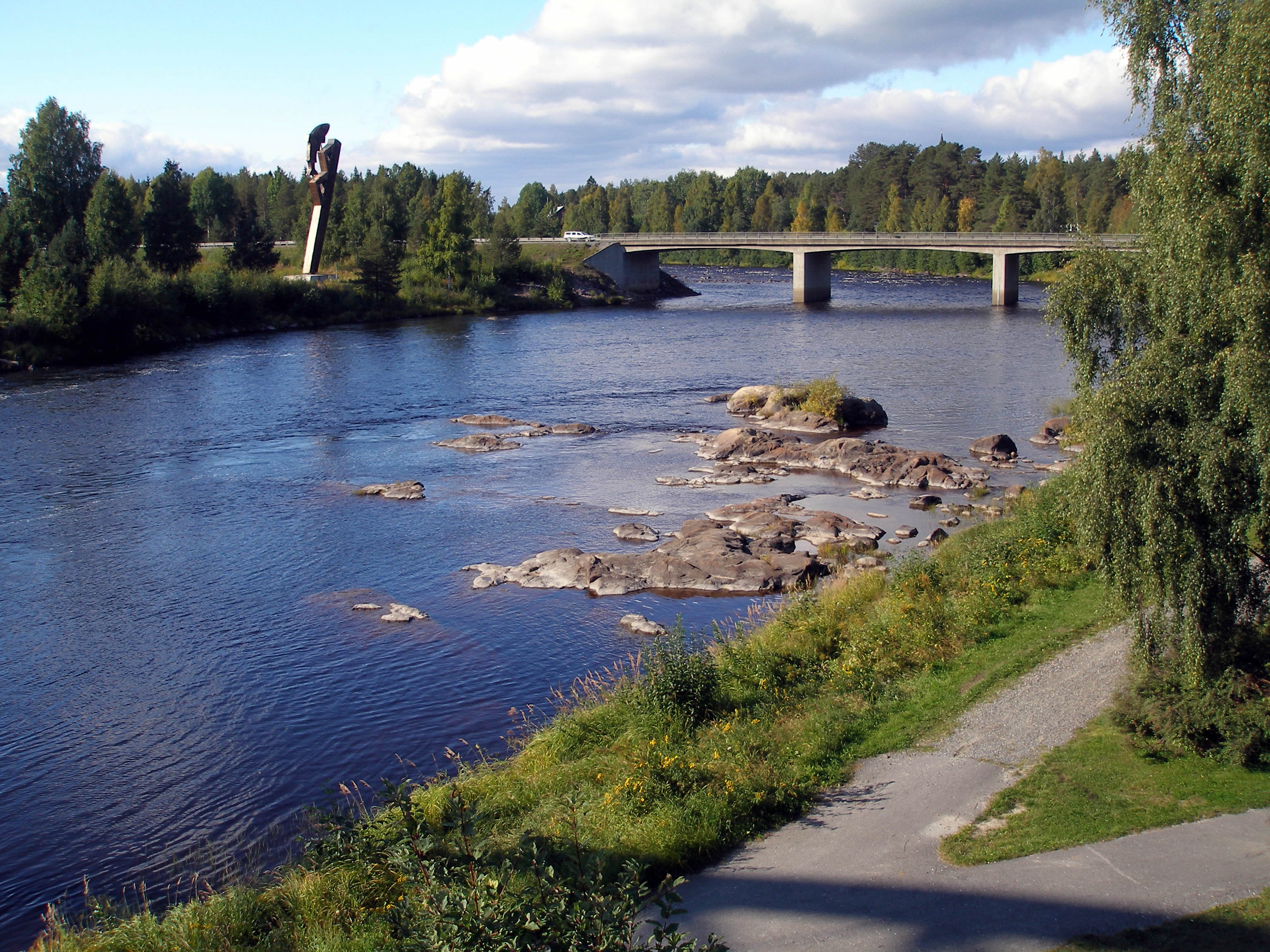 Byskeälven is an forrest river, comes from Western Kikkejaure in Arvidsjaur municipality and leads in the Bay at Byske in Skellefteå municipality. The river is about 215 km long and thus Northern Sweden's second-longest forrestriver after Gideälven. Byskeälven is with the Swedish measure a significant salmon river.